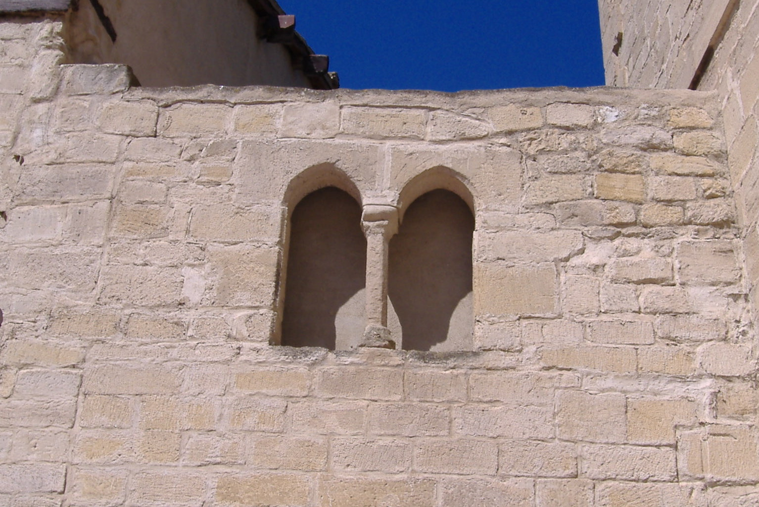 Palace of Sant John, council of Miranda de Ebro in the Middle Ages(Castile and León, Spain)